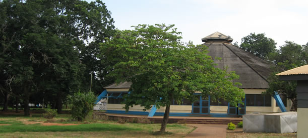 PresecDiningHall